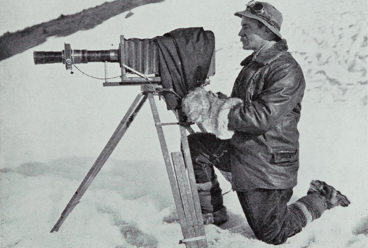 The great white South : being an account of experiences with Captain Scott's South pole expedition and of the nature life of the Antarctic /